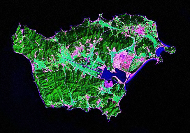 NASA Landsat image of Baengnyeong Island, South Korea